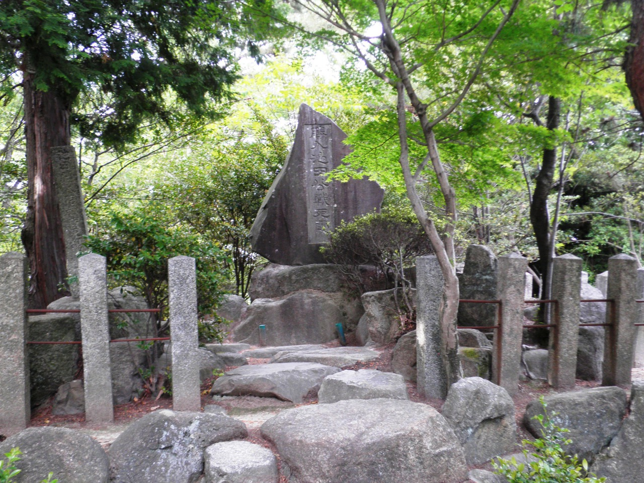 Shōnyū-zuka where Tsneoki Ikeda was killed in Nagakute, Aichi.